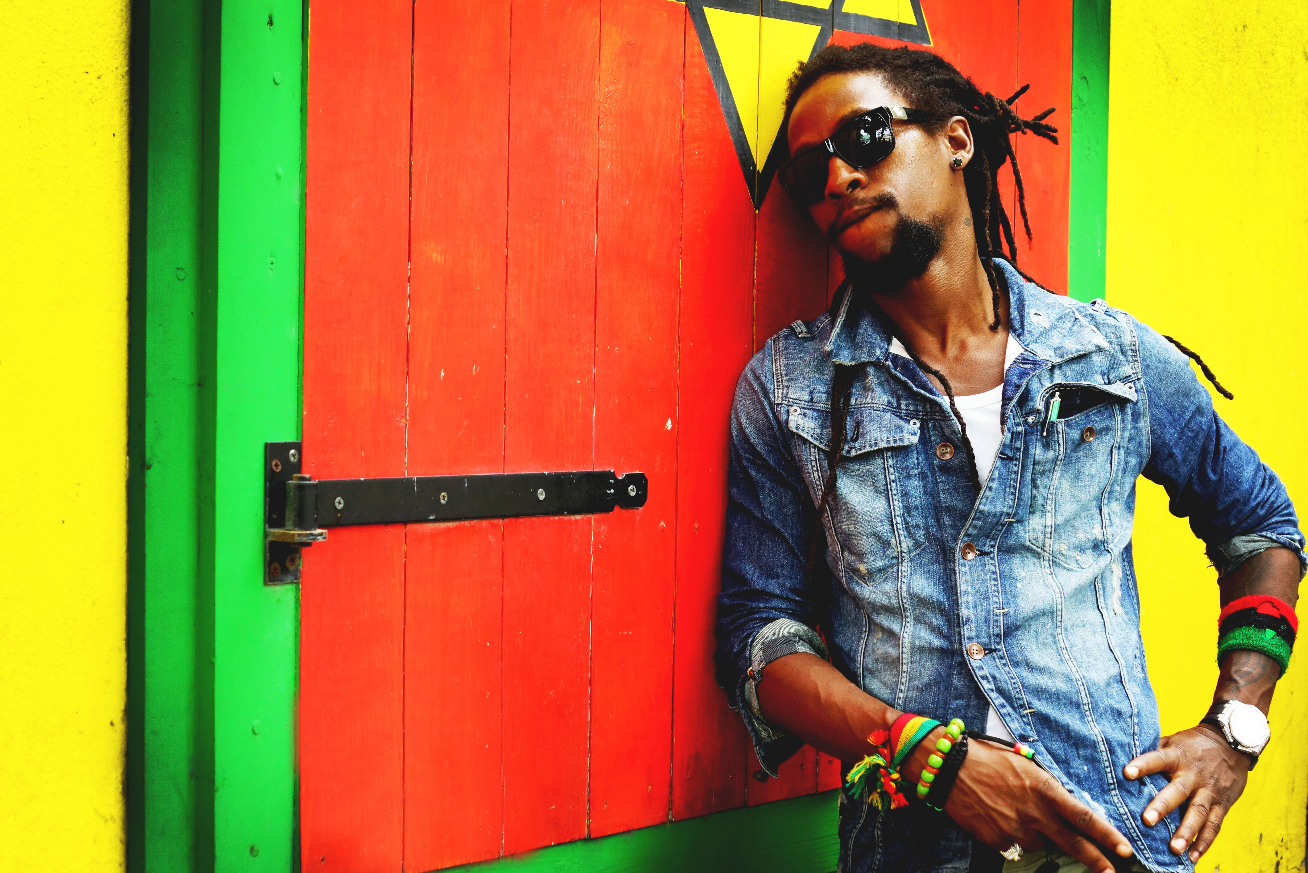 Jah Cure leaning on rasta colored wall.